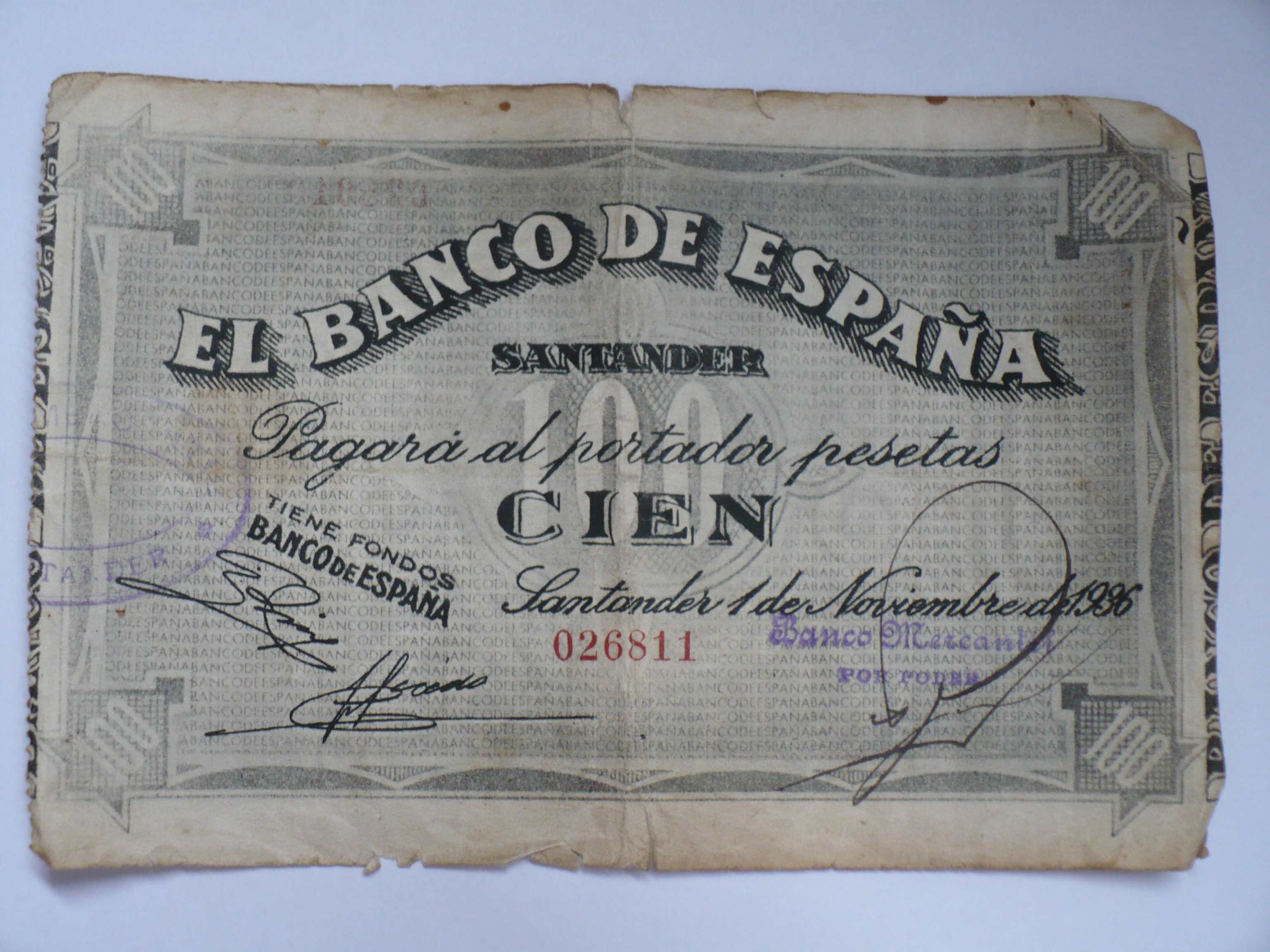 100 pesetas note from the Bank of Spain in Santander, Nov. 1st 1936